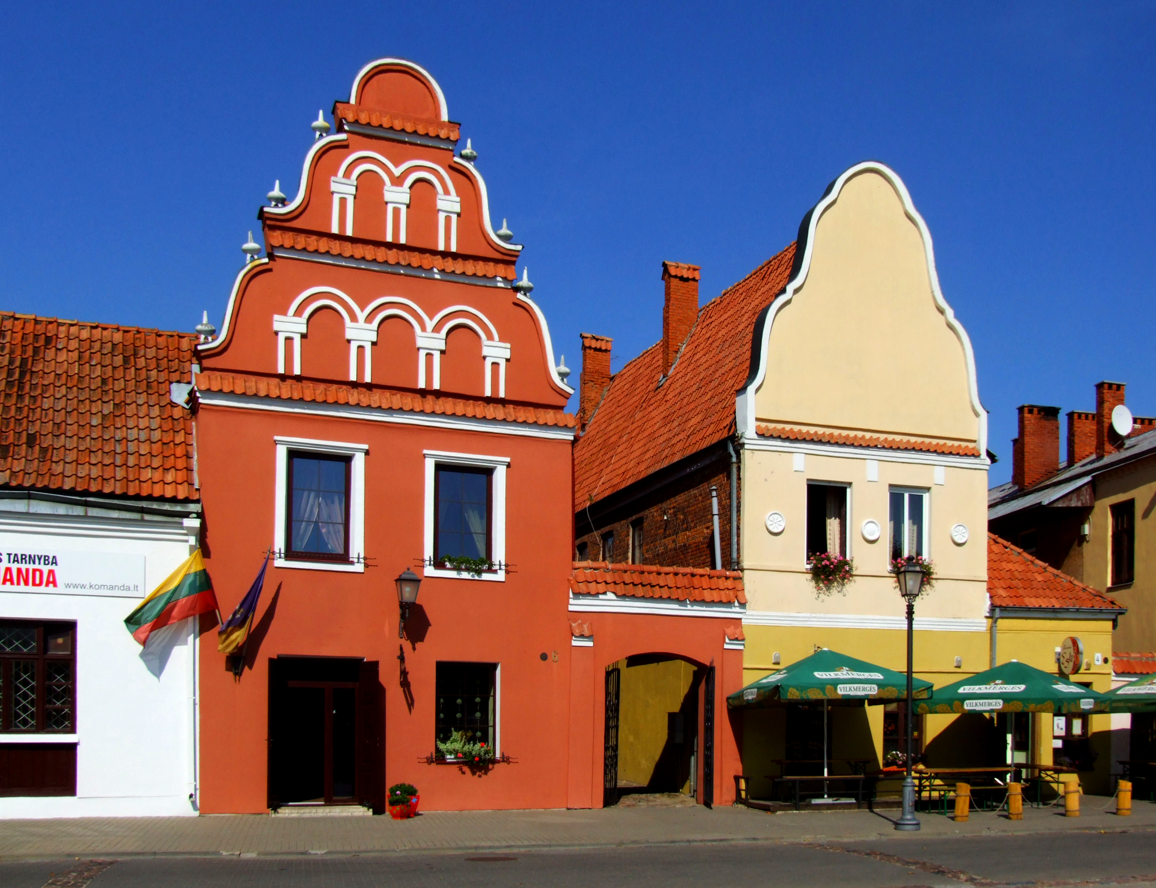 Kėdainiai (Kiejdany) - market square